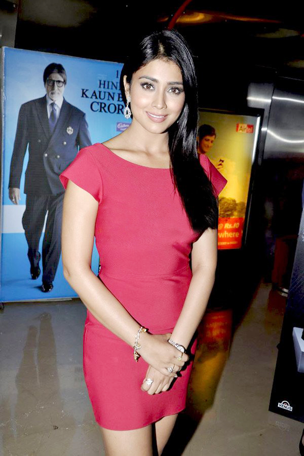 Indian actress Shriya SaranFrom watermark: Image credited to Bollywood Hungama.